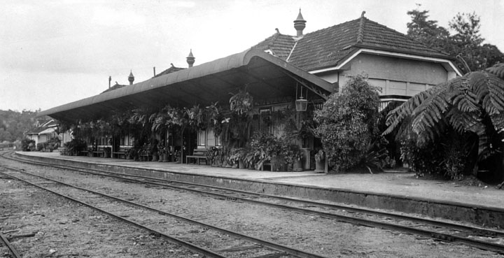 Railway Station Kuranda, NQ. (The alternative name for Kuranda Railway Station is Kuranda Gardens.)